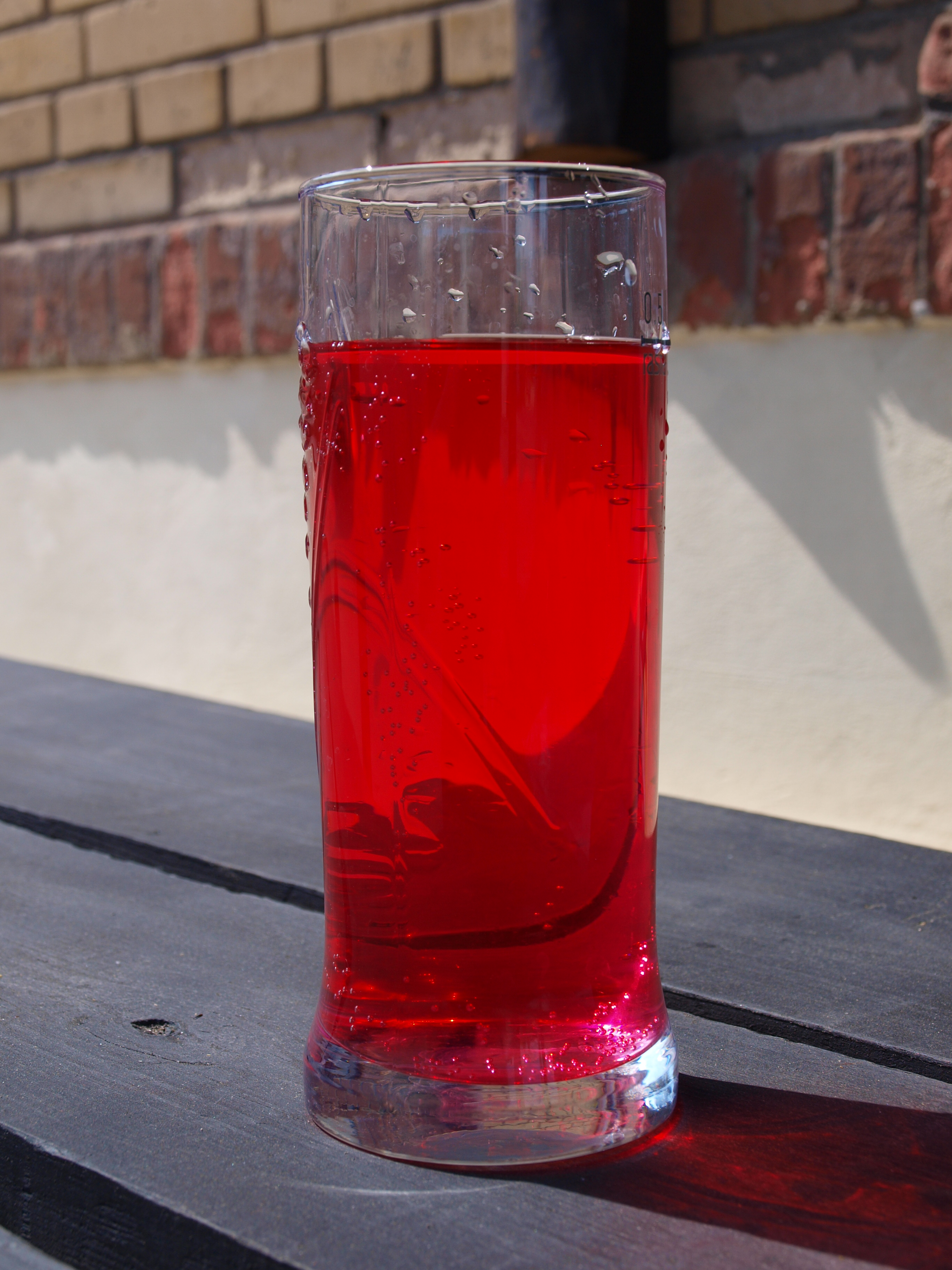 Czech pink lemonade